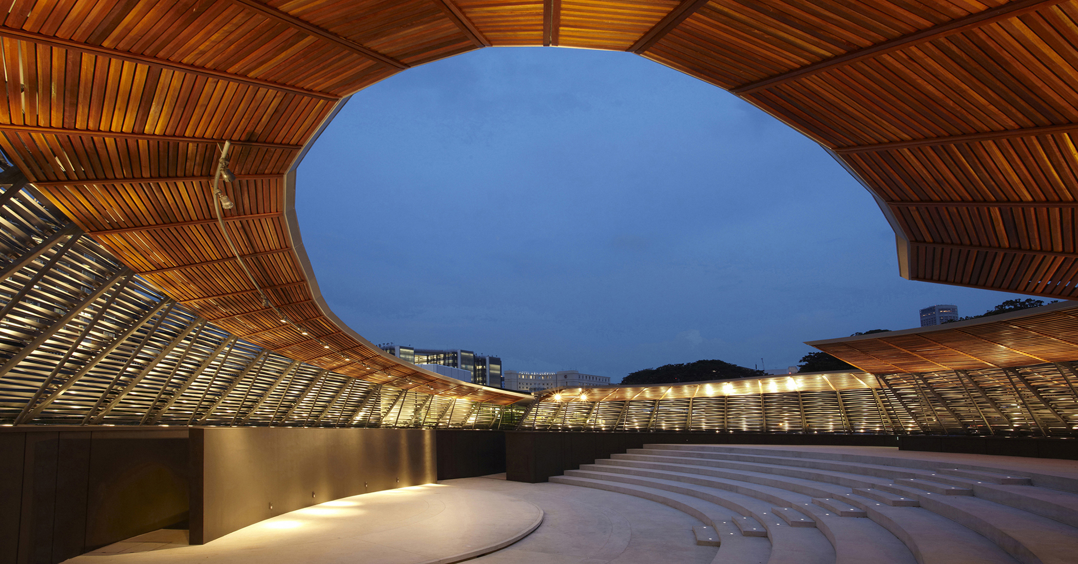 The amphitheatre at Dhoby Ghaut Green in Singapore, designed by SCDA Architects.